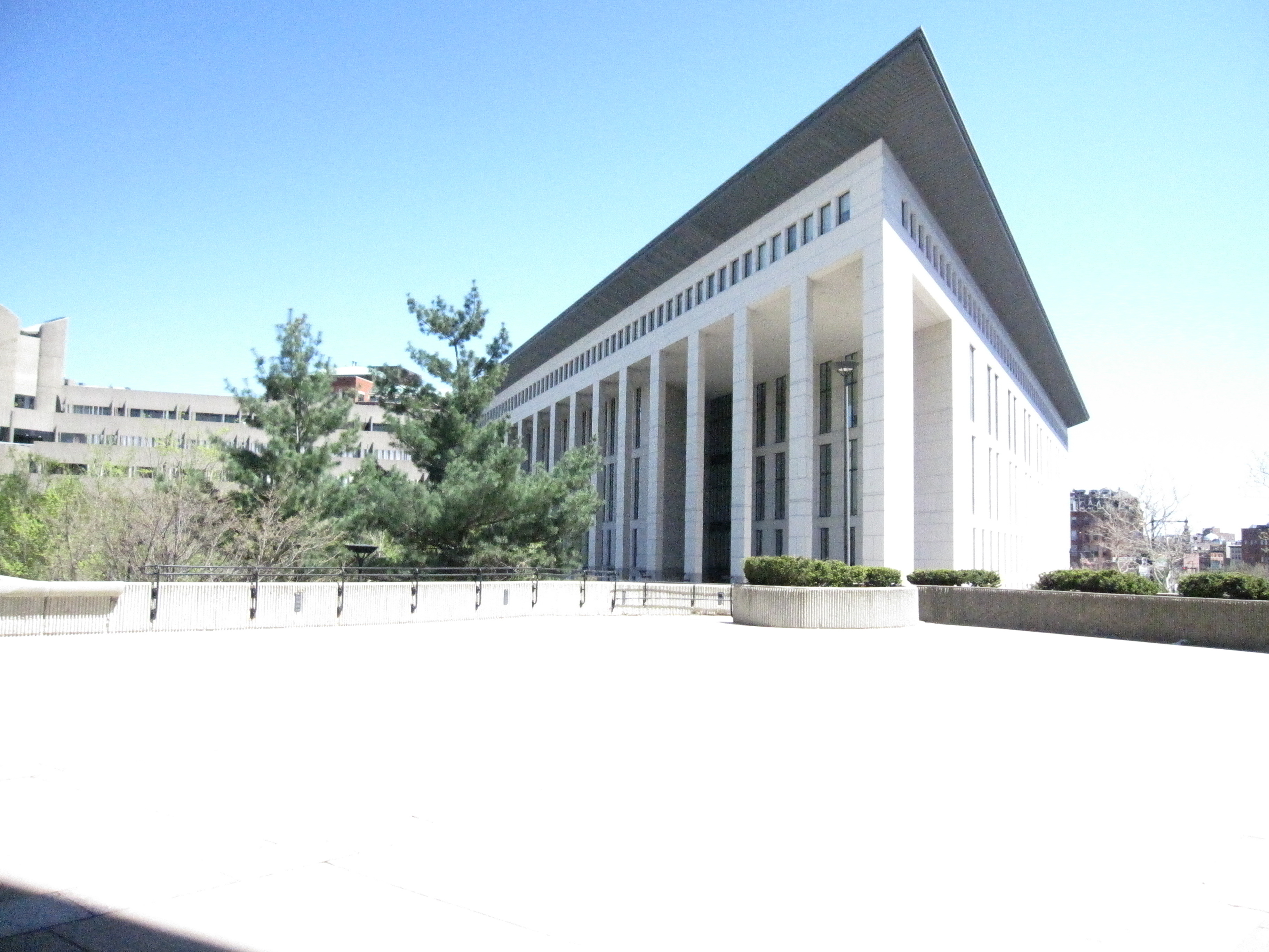 Boston, Massachusetts